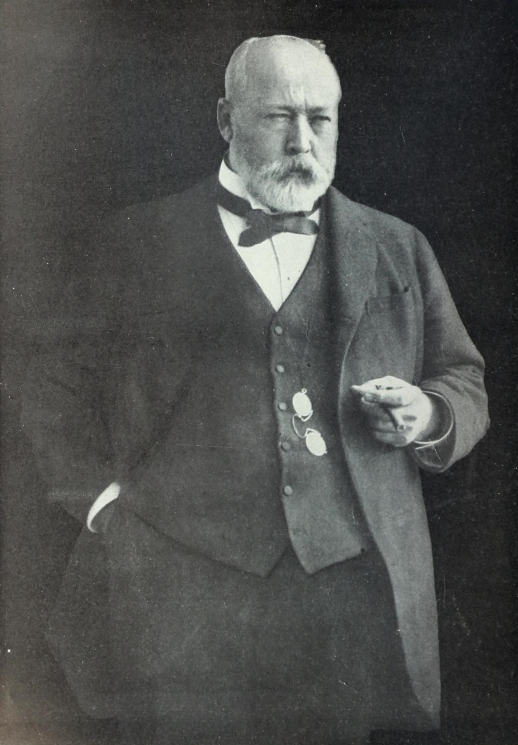 William Cornelius Van Horne